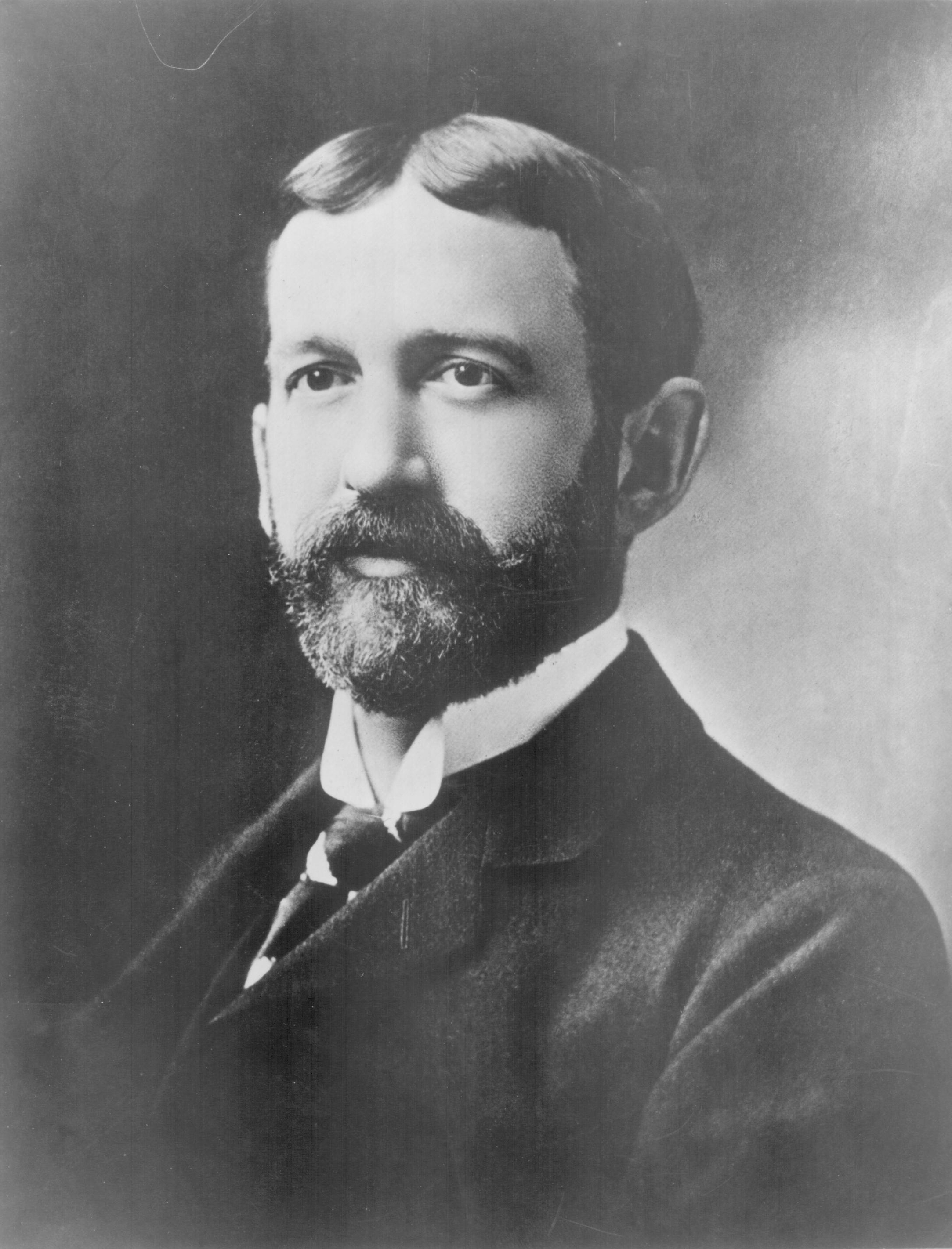 A portrait of a younger-looking Robert "Fish" Jones, a Minneapolis businessman and zoo owner.